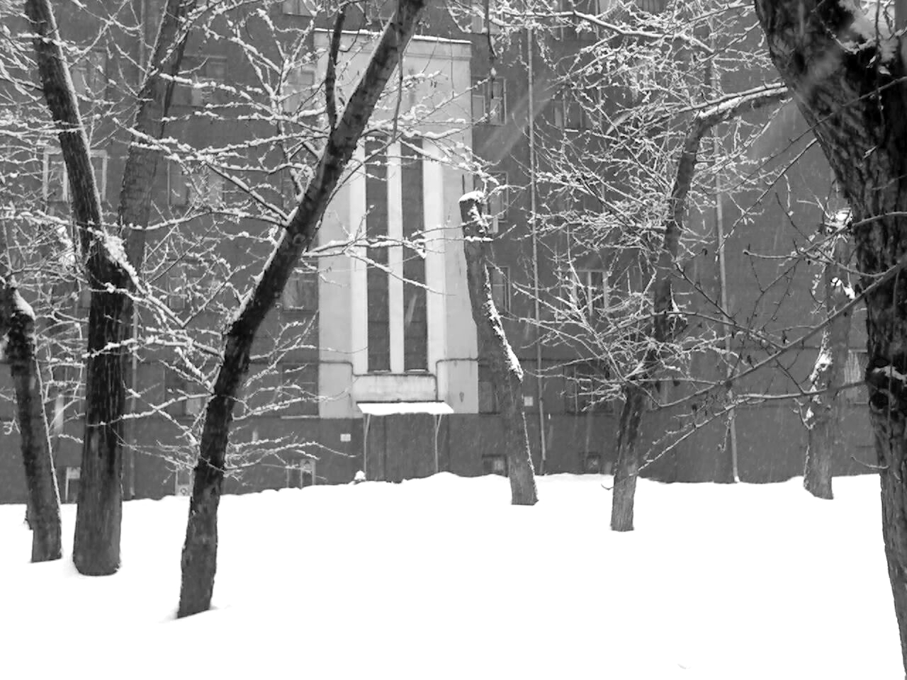 Former office of Moscow Gestalt Institut, EAGT